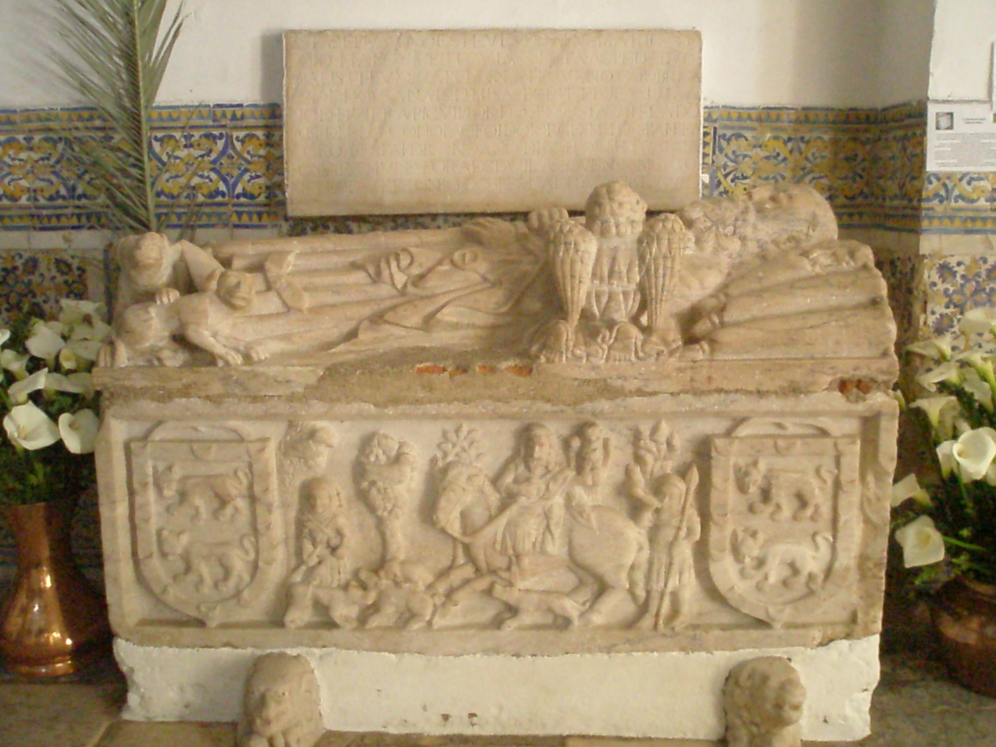 Tomb of Esteves de Gatuz (15th c.) inside San Francis Church in Estremoz